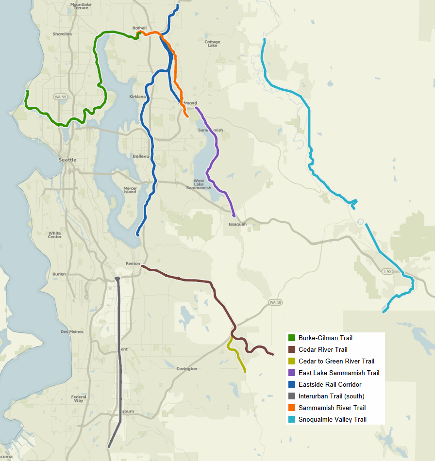 Map of Rail trails in King County. Created with Tableau